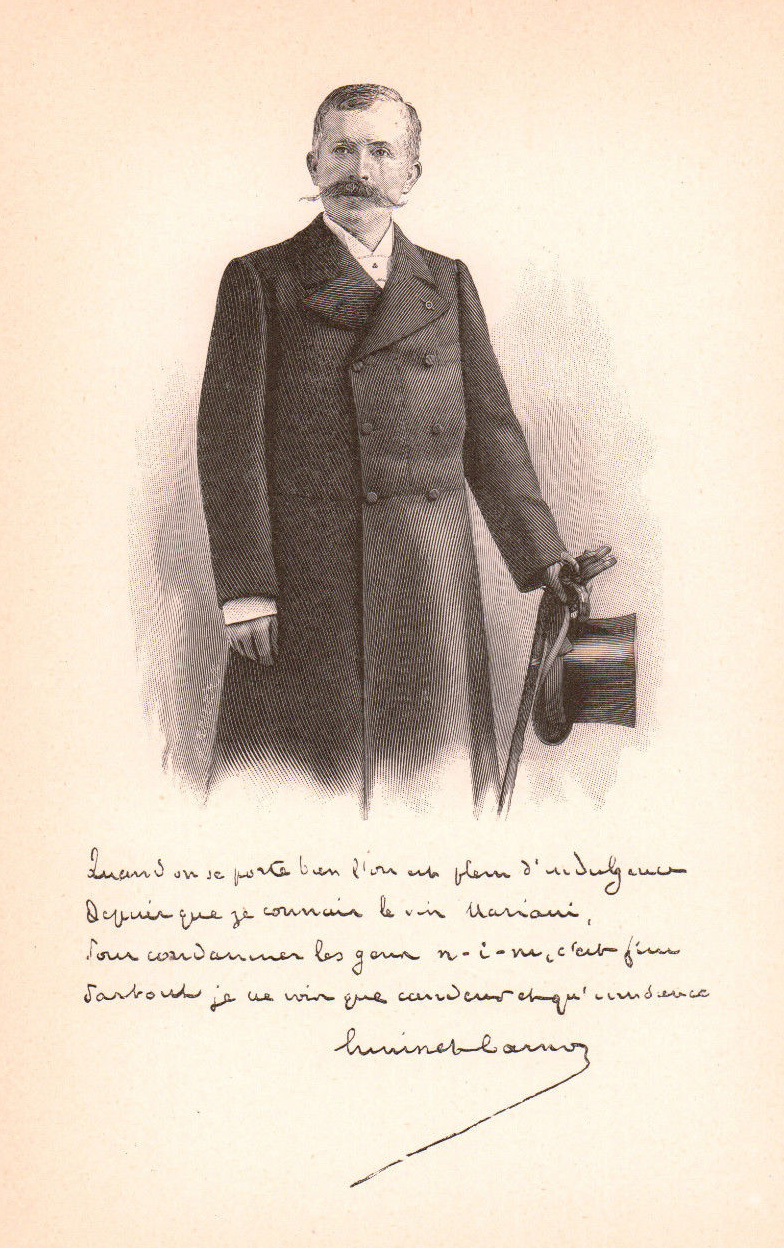 French writer Paul Cunisset-Carnot (1849-1919)